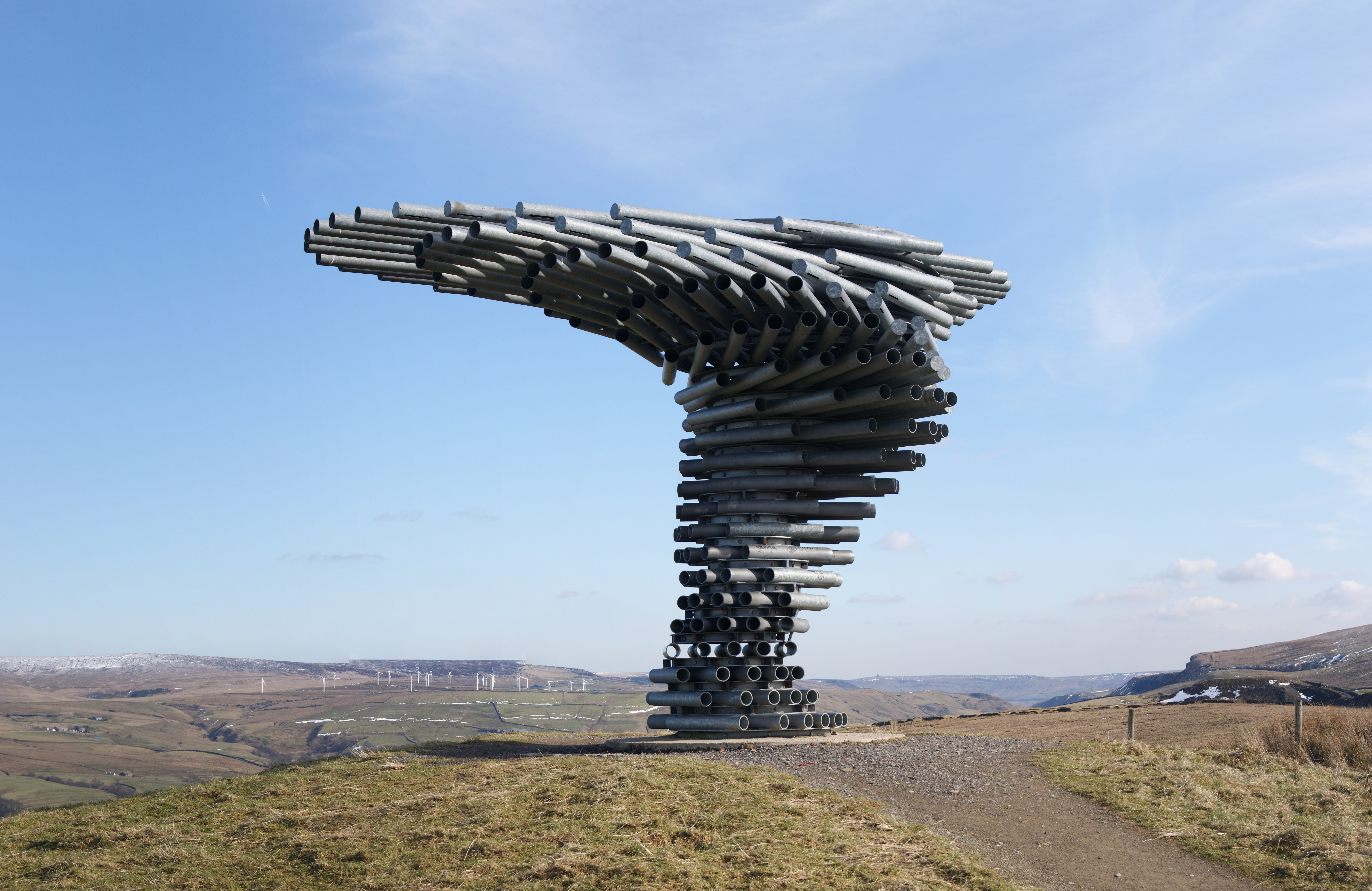 An image of the Burnley Panopticon, the Singing Ringing Tree